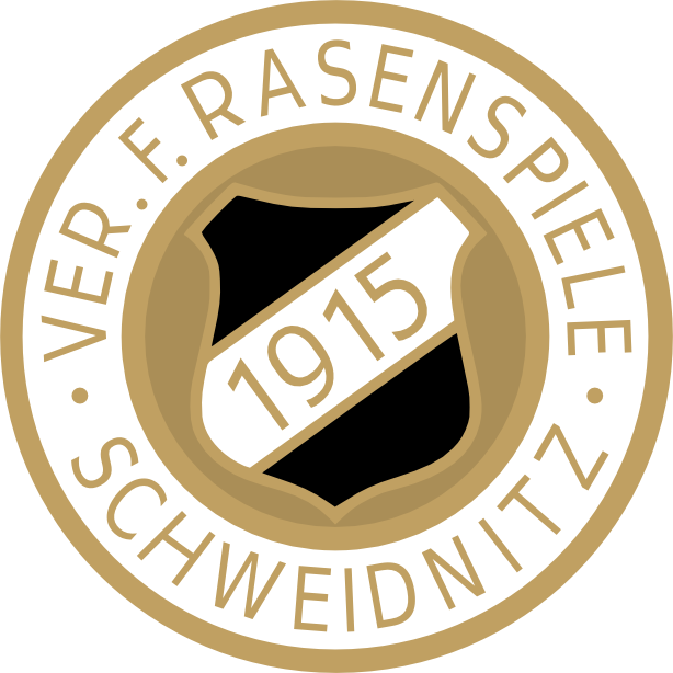 Logo of VfR 1915 Schweidnitz, German football team.